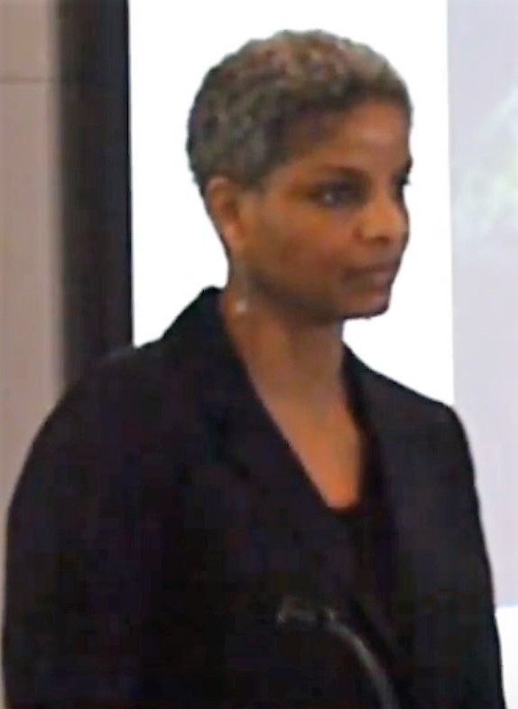 American nephrologist and writer Vanessa Grubbs, MD, MPH speaks on Appropriate Withholding or Withdrawal of Dialysis at Stanford Geriatric Education Center in 2015.